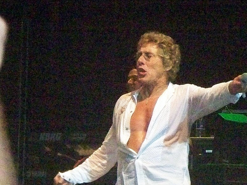 Roger Daltrey, lead singer of British classic rock band The Who, performed at the House Of Blues, Boston, Mass. on Nov. 8, 2009.